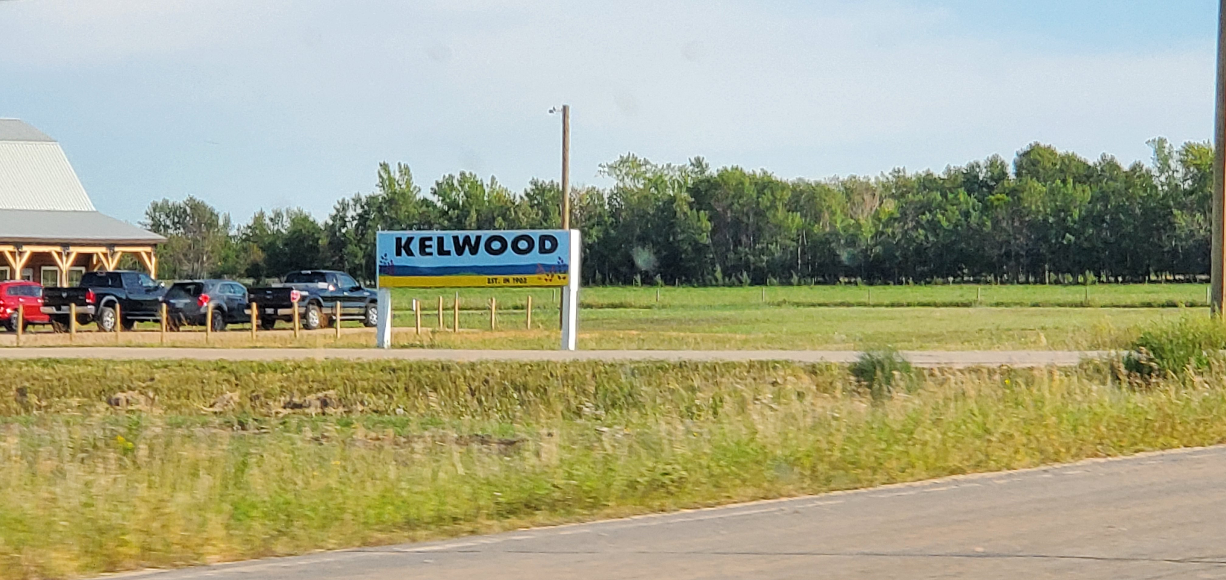 Kellwood, Manitoba